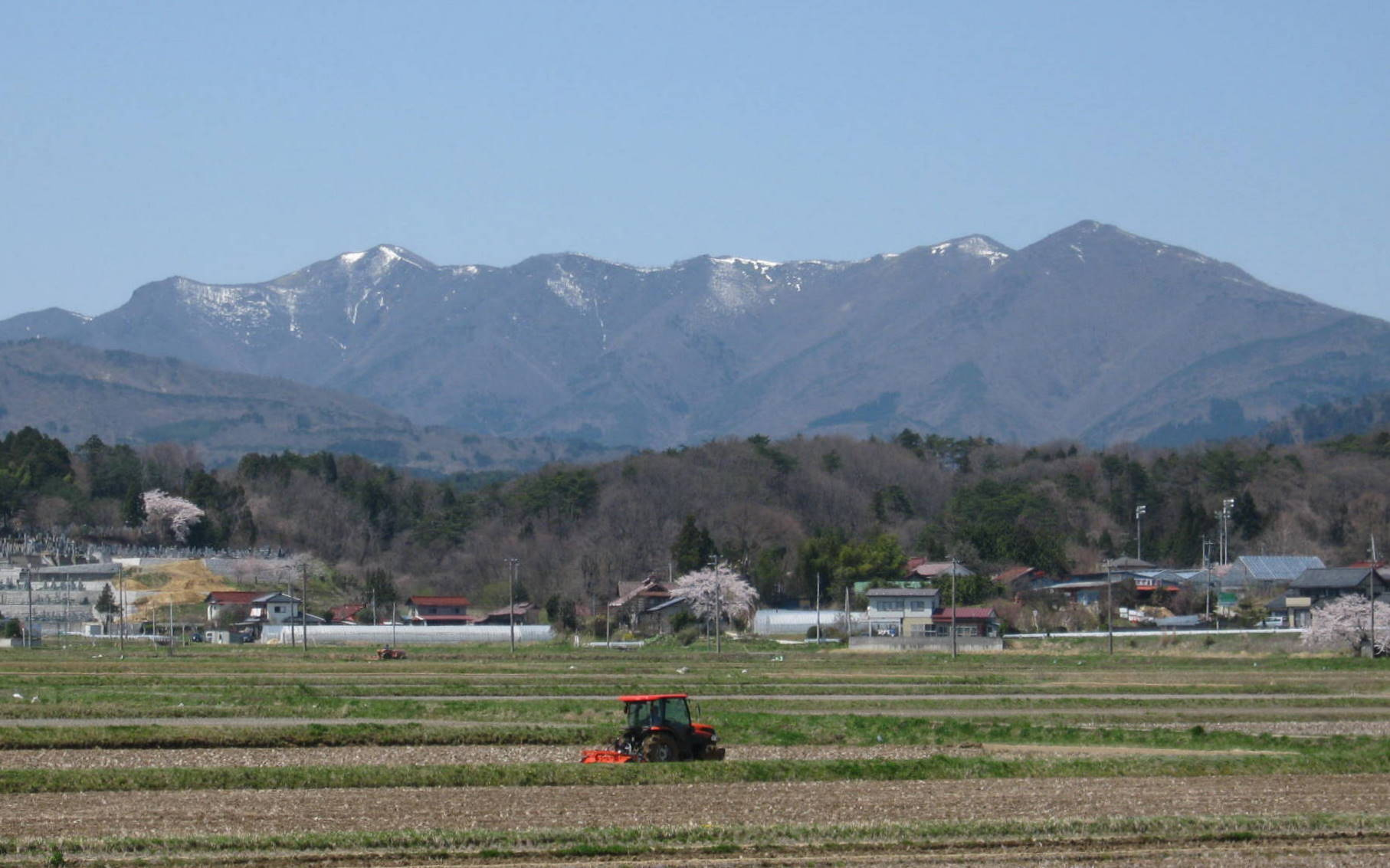 Mount Hitatori (Hitatoriyama) as seen from the east in Fukushima Prefecture, Japan. A.k.a. Mount Asaka (Asakayama).